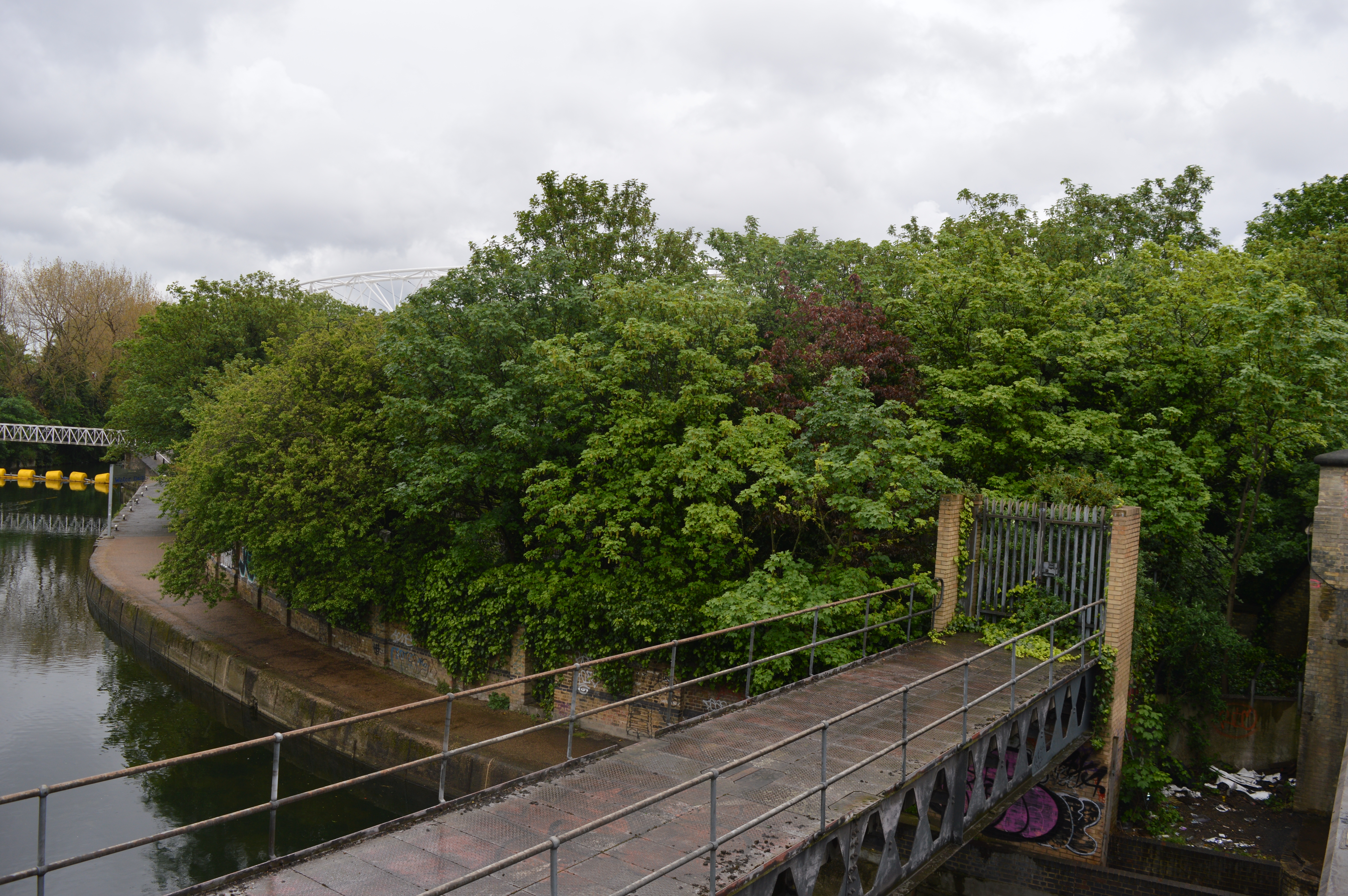 Old Ford Island, a nature reserve managed by the London Wildlife Trust